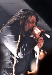 Ill nino in Prague